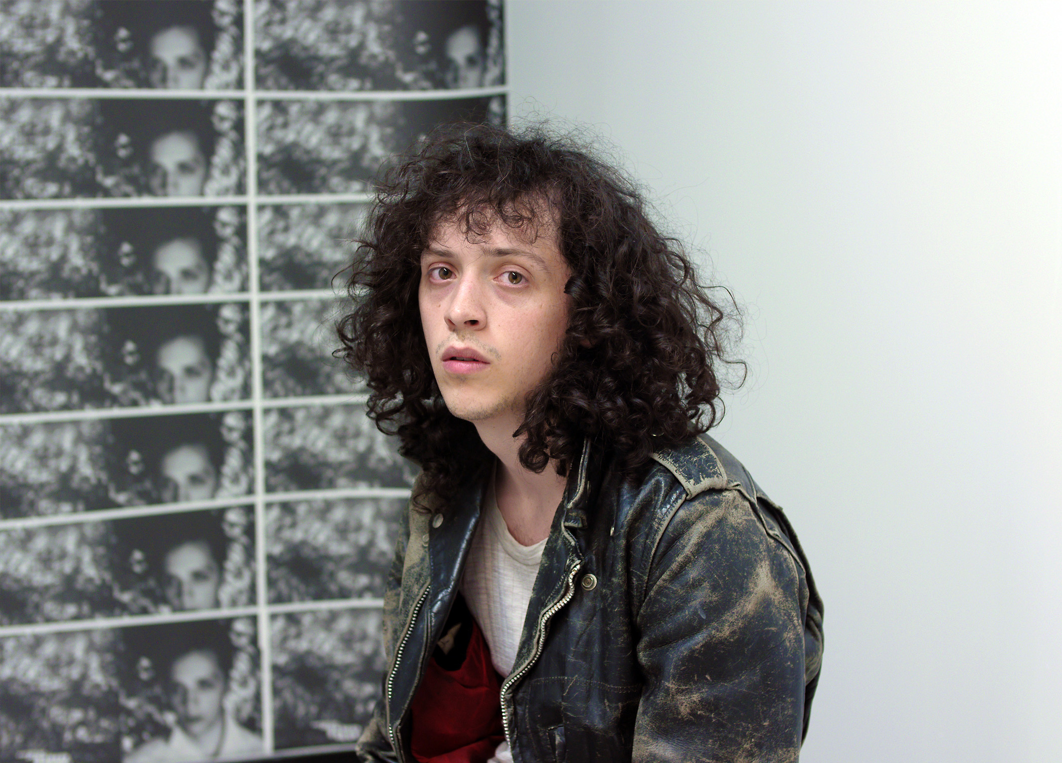 Postcard issued by DFA Records.